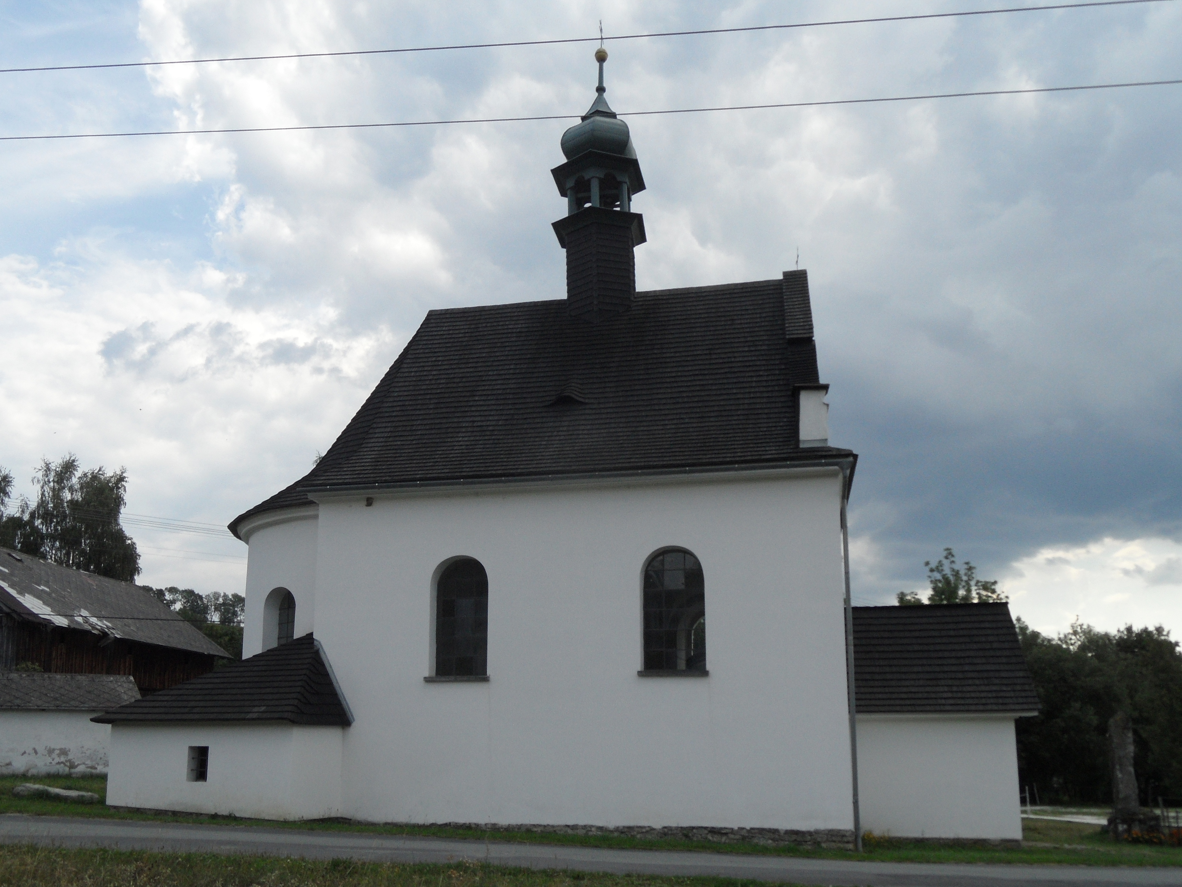 Kunčice (Staré Město): Chapel. Šumperk District, the Czech Republic